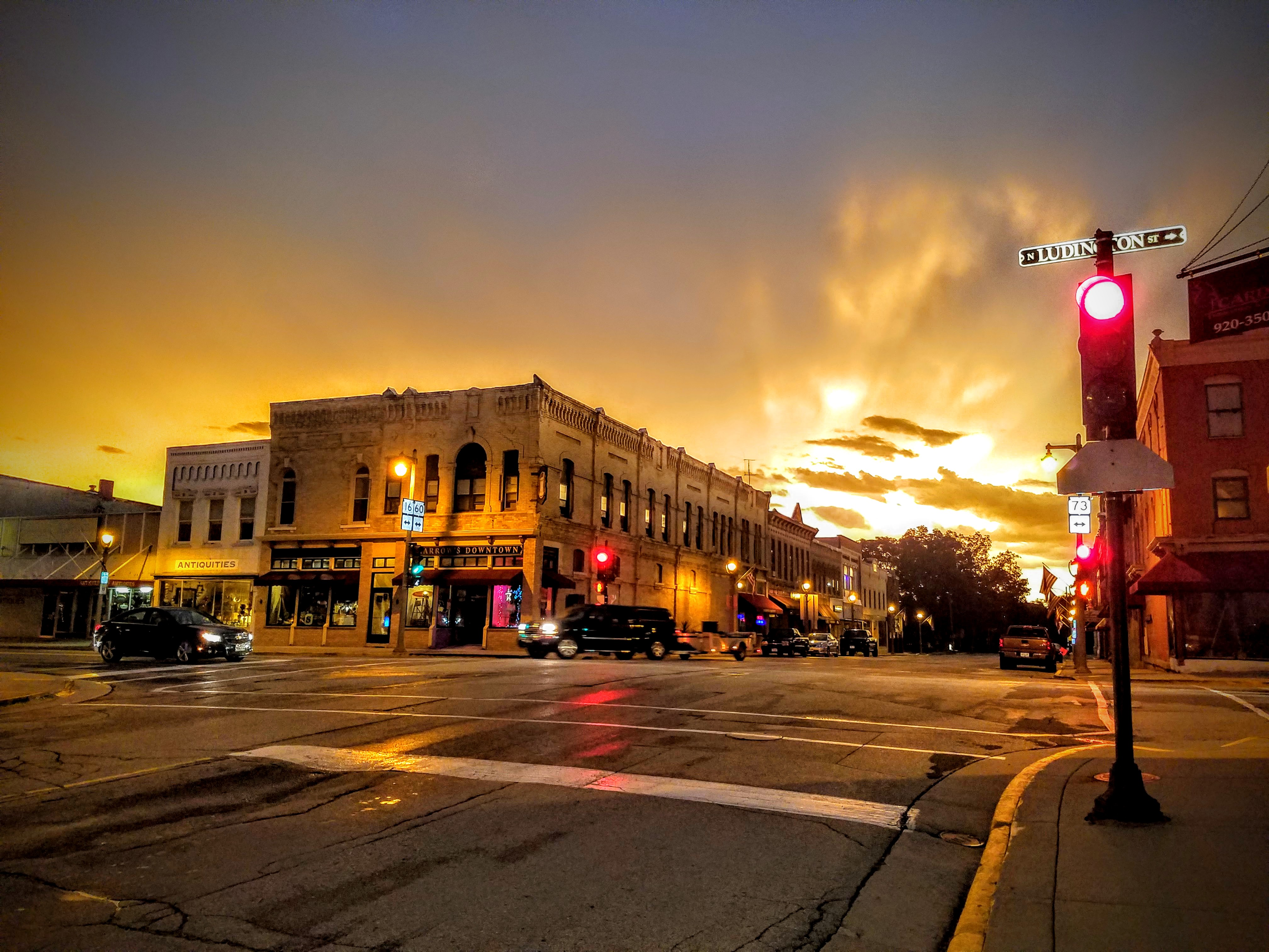 Downtown Columbus Wisconsin